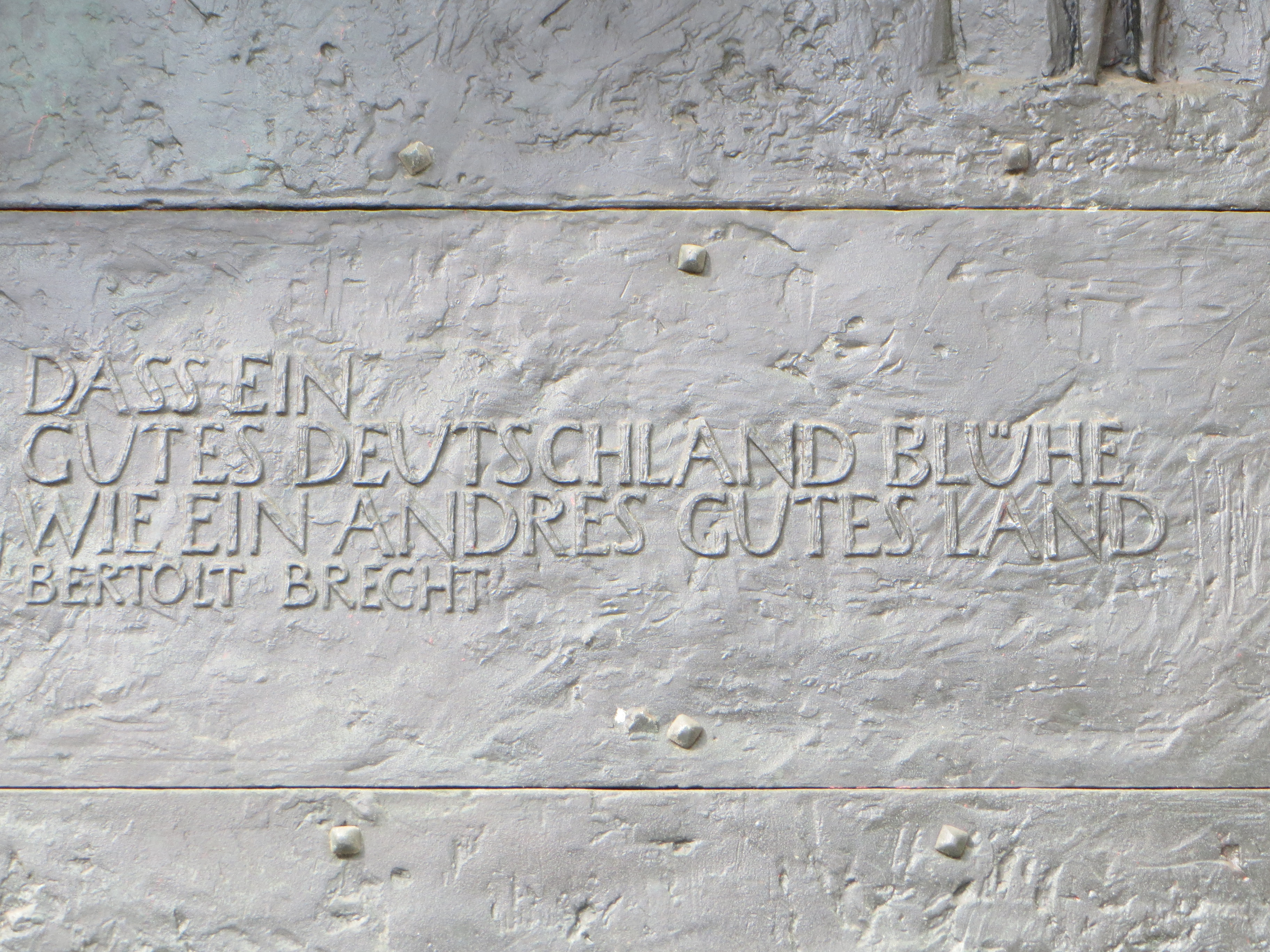 Bronze doors at Greifswald town hall, designed by Jo Jastram: detail showing quote from Bertold Brecht